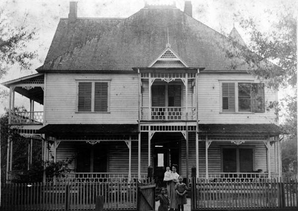 Local call number: N028530 Title: Governor William S. Jennings House: Brooksville, Florida Date: ca. 1890 General note: The William Sherman Jennings House, also known as the May Mann Jennings House or the Jennings-Rogers House, is located at 48 Olive Street in Brooksville, Florida. It was added to the National Register of Historic Places in 1998. Physical descrip: 1 photonegative - b&w - 4 x 5 in. Series Title: General Collection Repository: State Library and Archives of Florida, 500 S. Bronough St., Tallahassee, FL 32399-0250 USA. Contact: 850.245.6700. Persistent URL: Visit Florida Memory to see more photographs of the William S. Jennings House in Brooksville.